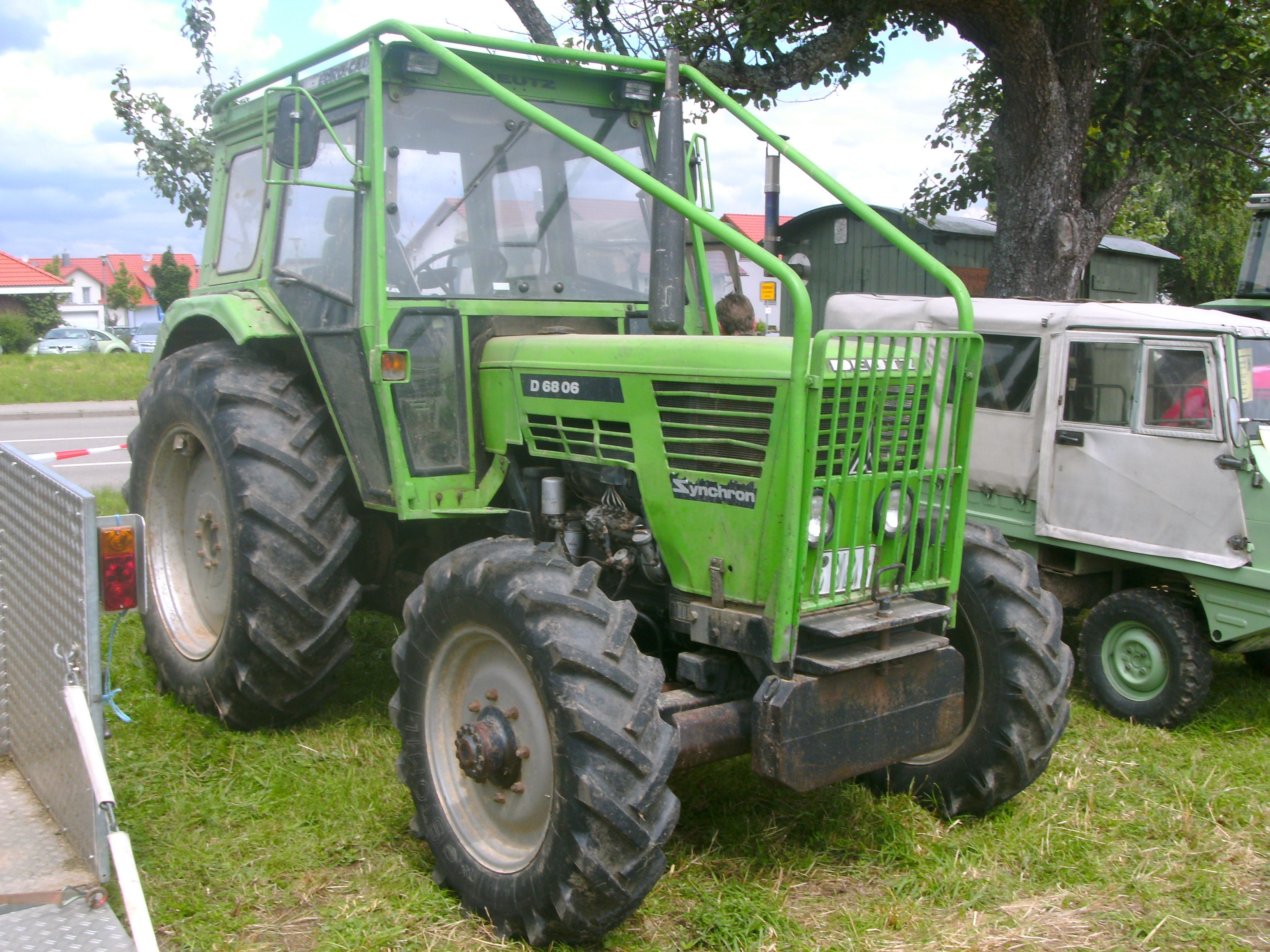 Deutz D6806, 68 HP